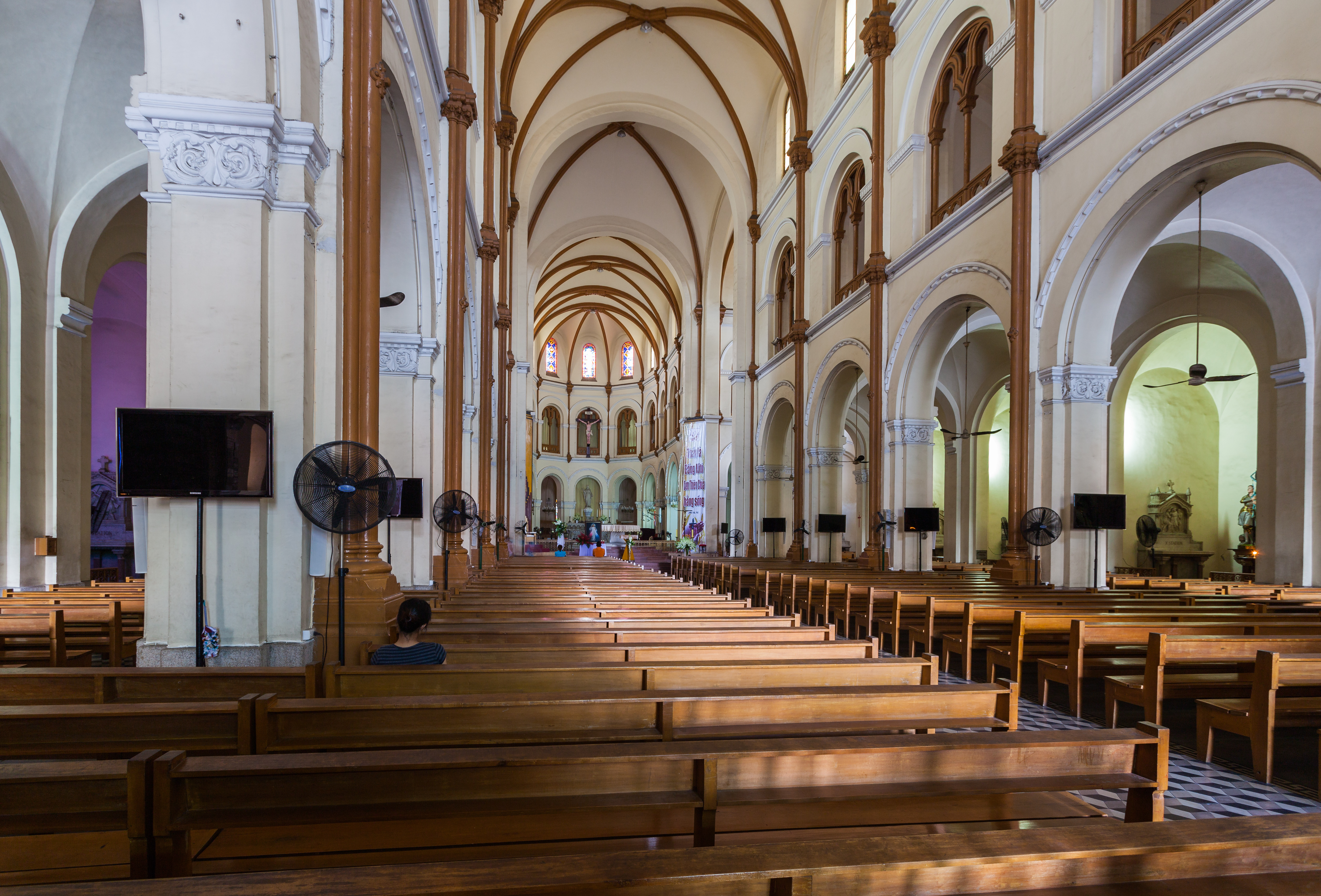 Notre-Dame Basilica, Ho Chi Minh City, Vietnam.